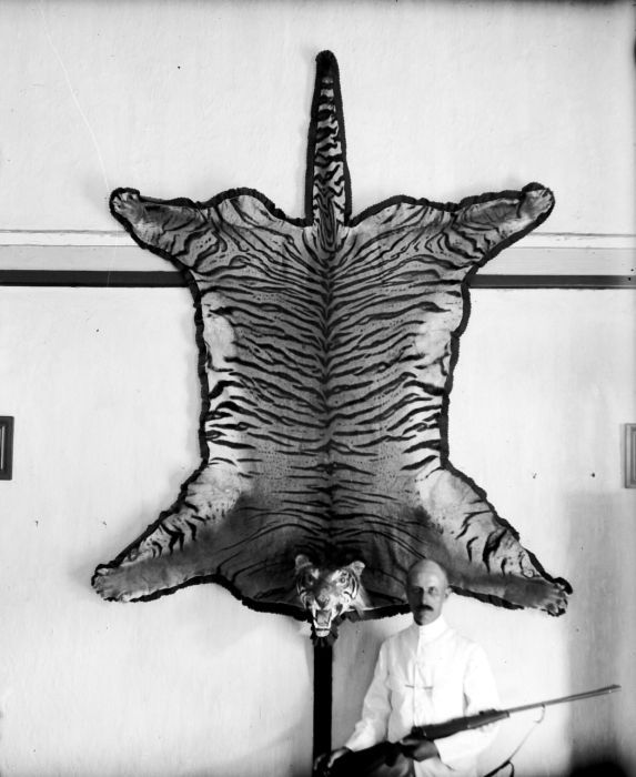 Negative. A hunter poses in front of the skin of a shot tiger at Kalitapakduwur, Java, Indonesia (then Dutch East Indies)